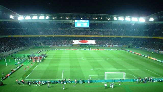 FIFA World Cup 2002, Japan vs Russia in International Stadium of Yokohama